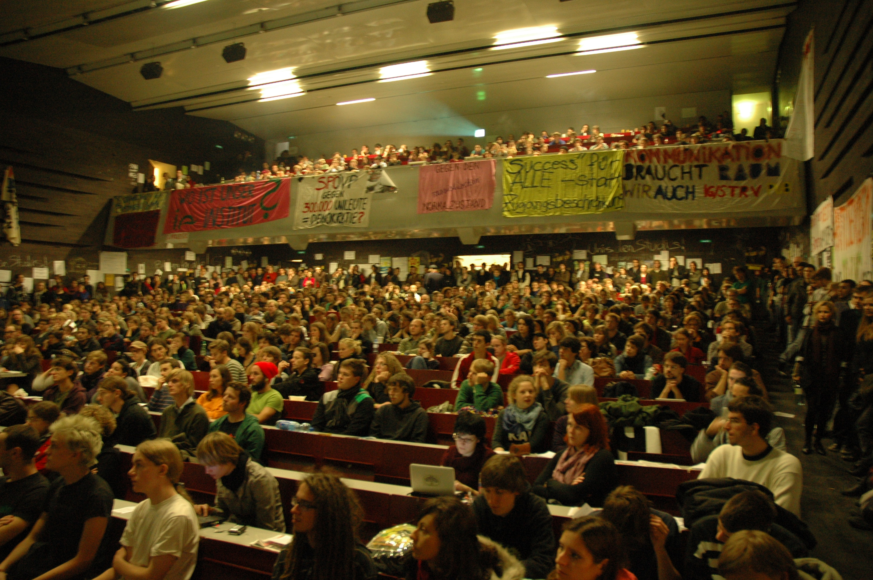 Besetzter AudiMax der Universität Wien / squatted AudiMax (auditorium maximum) at the University of Vienna, Austria